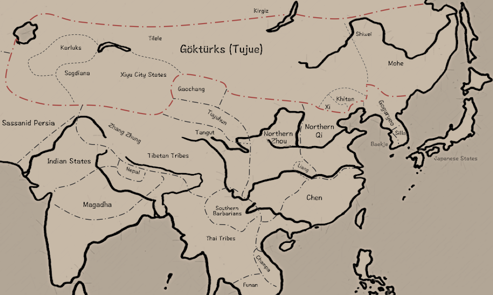 Map of the Tujue Khanate (Ashina clan of Göktürks) at its greatest extent in 570.